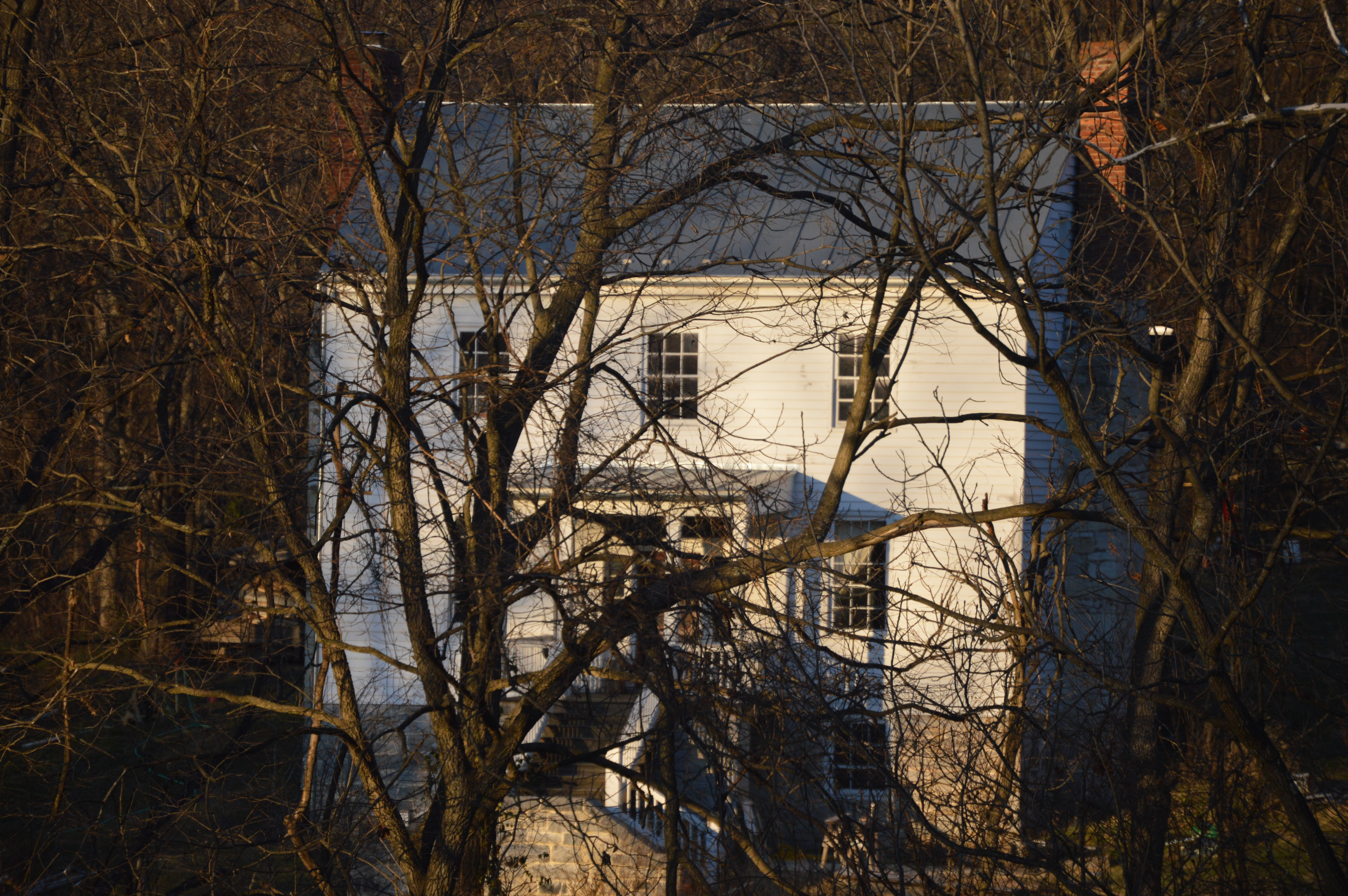 Front of the Benjamin Wierman House, located at 4049 Flat Rock Road west of Forestville in Shenandoah County, Virginia, United States. Built in 1859, it is listed on the National Register of Historic Places.